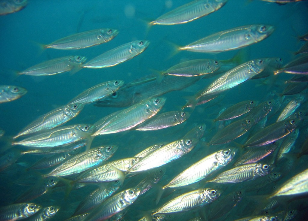 A school of Jack Mackerel (Trachurus declivis). Fairy Bower, Manly, NSW